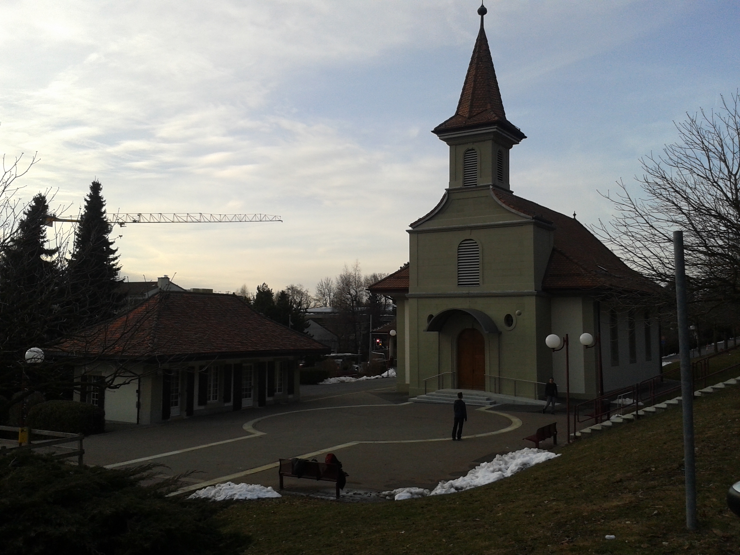 The temple of Le Mont-sur-Lausanne, Vaud, Switzerland.